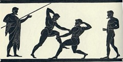 A scene of Ancient Greek pankratists fighting. Originally found on a Panathenaic amphora, Lamberg collection. The original image which was scanned can be located in: Gardiner, E. Norman (1864-1930), Greek Athletic Sports and Festivals, London: MacMillan, 1910, p. 444, Fig. 159